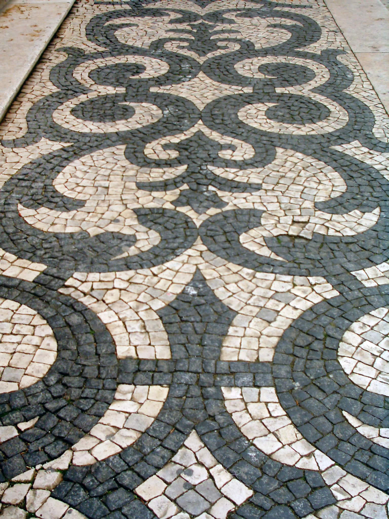 Pavement, Lisbon, Portugal.